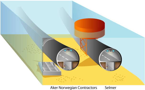 Two types of submerged floating tunnels